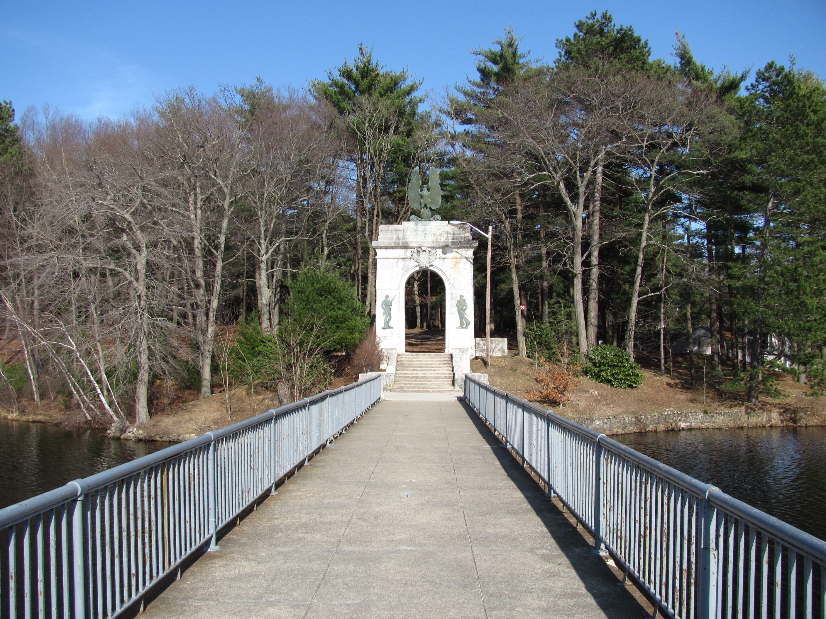 Entrance to Island Grove Park, Abington Massachusetts - pedestrian bridge over Island Grove Pond